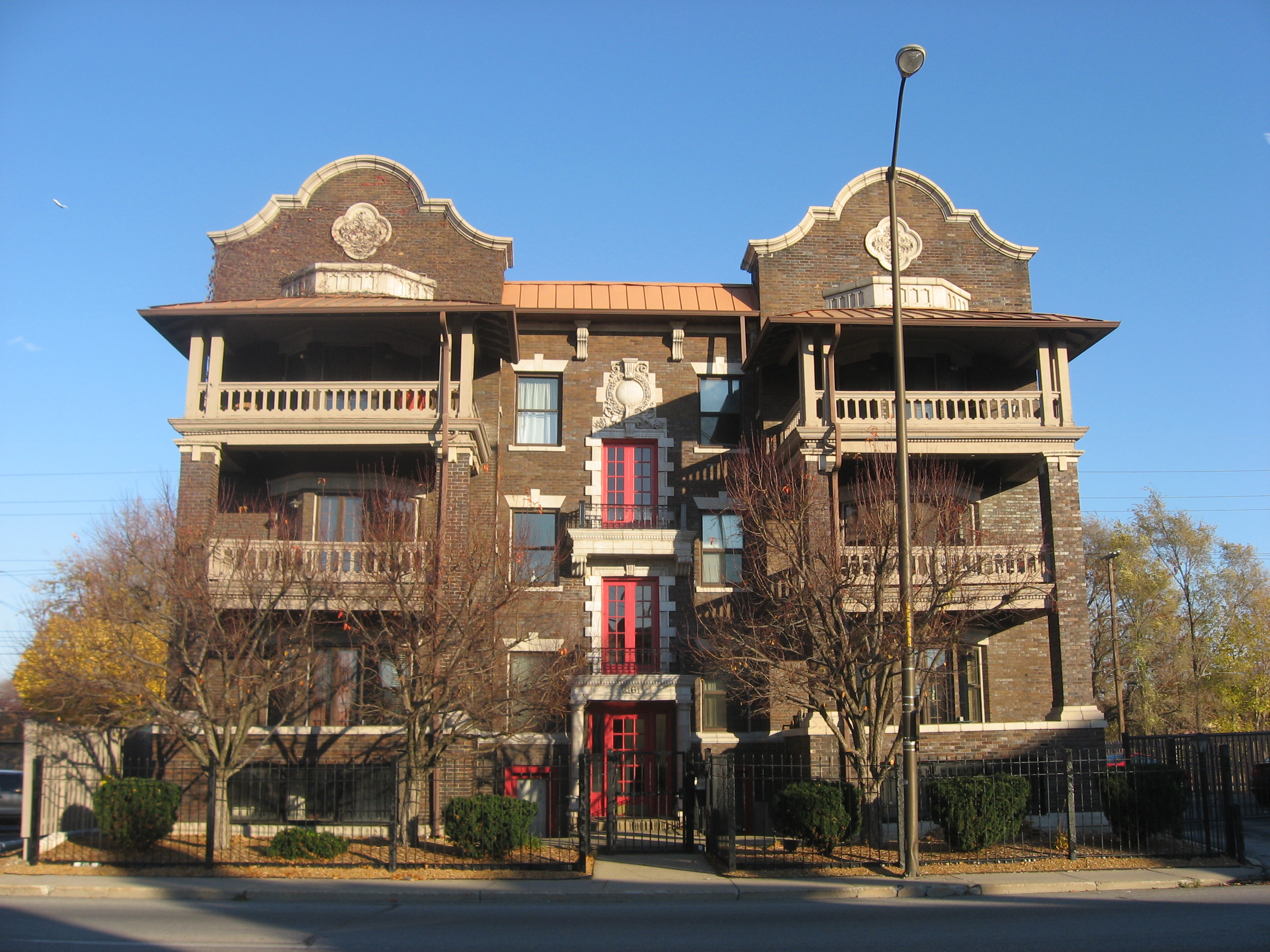 Front of the Coulter Flats, located at 2161 N. Meridian Street in Indianapolis, Indiana, United States. Built in 1907, it is listed on the National Register of Historic Places.